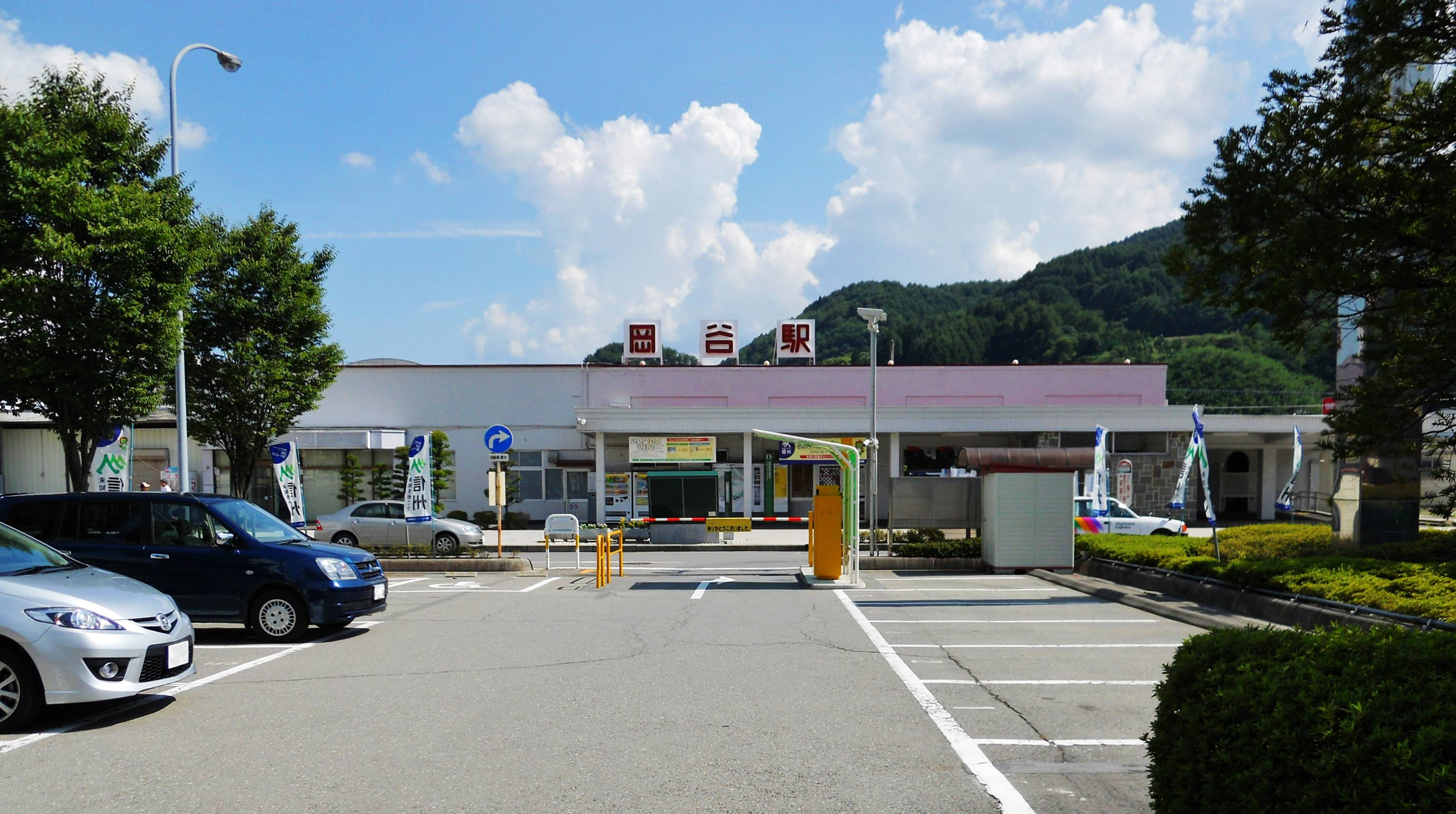 Okaya Station.